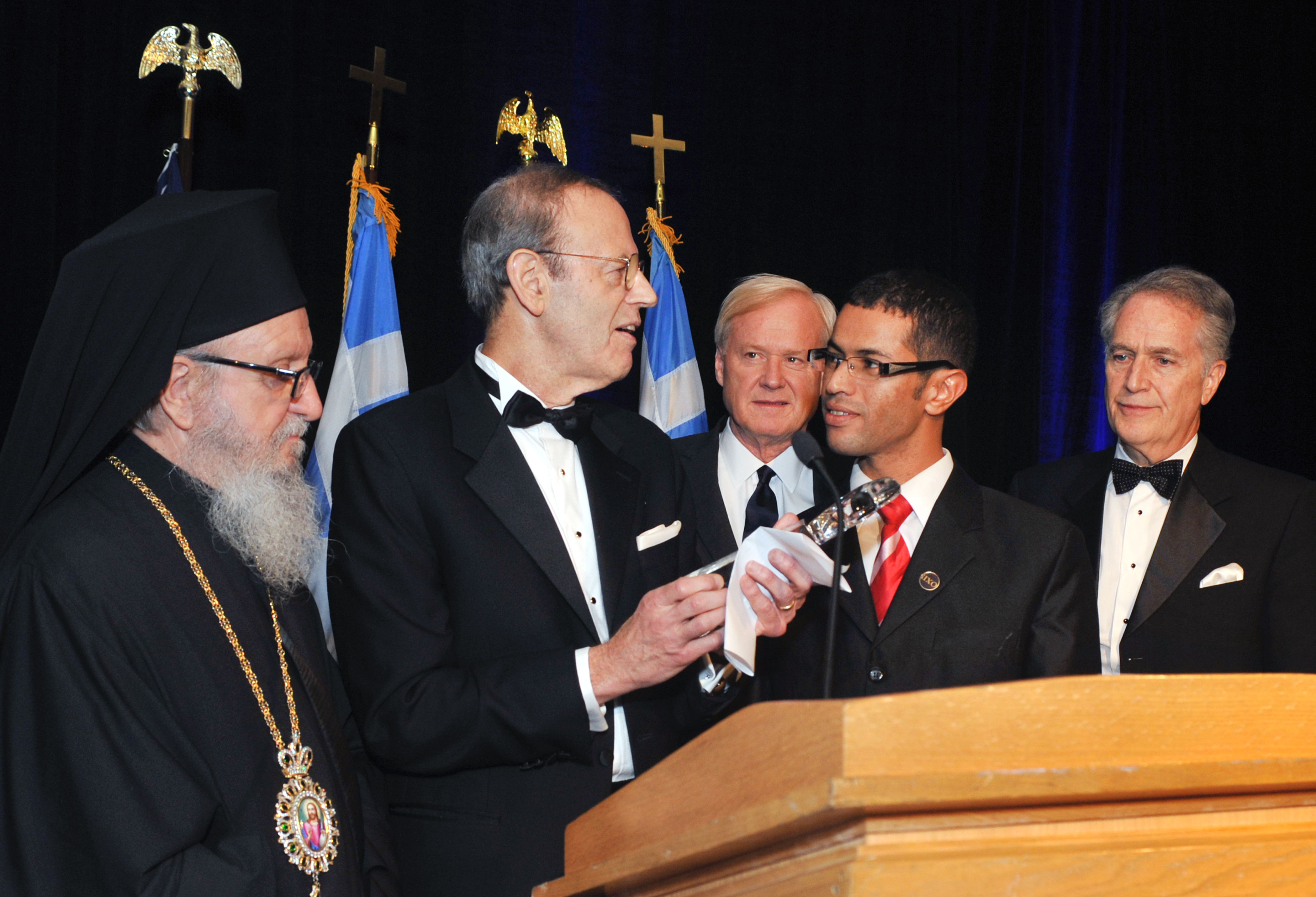 "National Endowment for Democracy President Carl Gershman presents the Oxi Day Award to Jamel Bettaieb of Tunisia, one of the [leaders] of the Arab Spring." The event is entitled "Oxi Day Foundation Inaugural Black Tie Banquet".